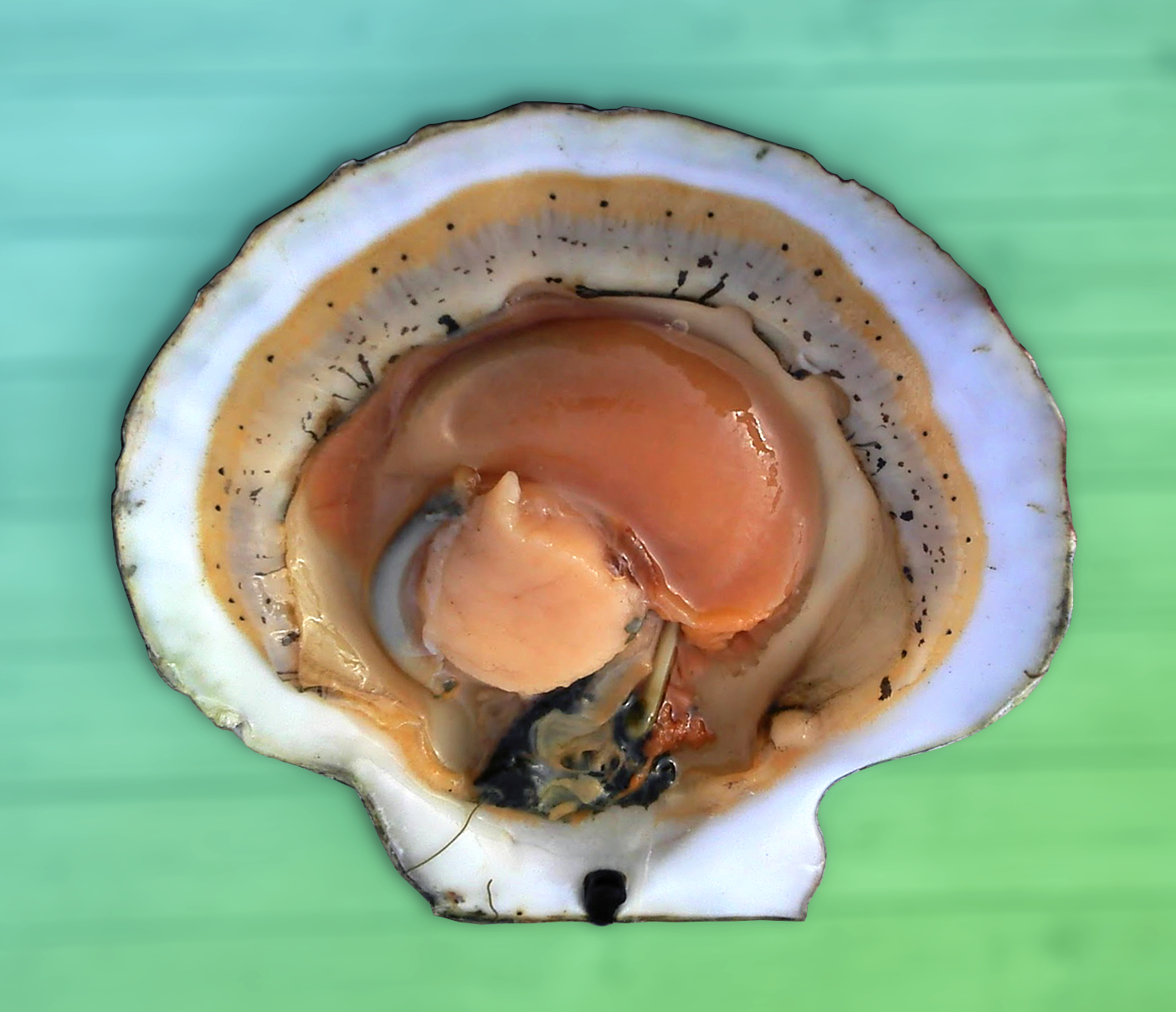 Opened shell of scallop